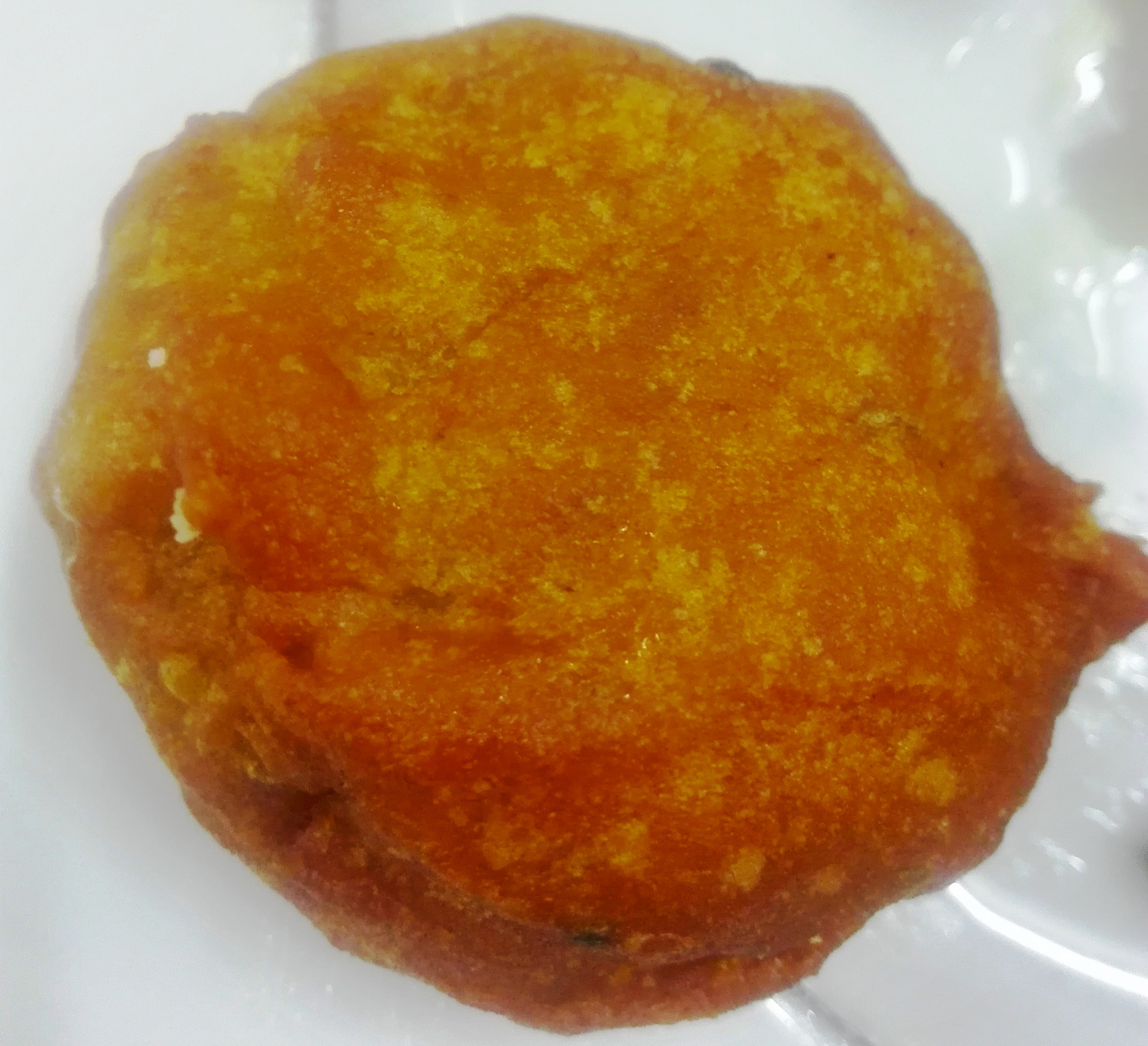 Alur Chop is a fast food in Bangladesh normally made with potato and flour.